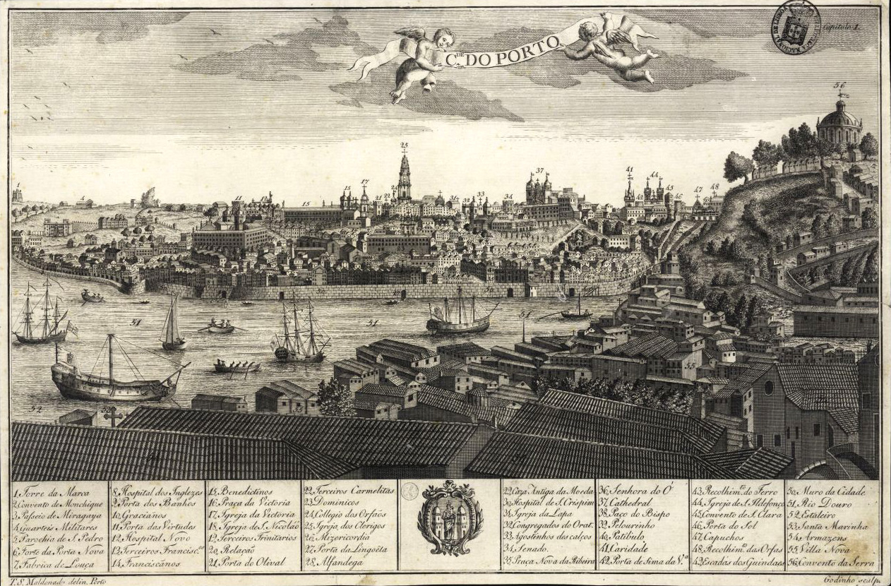 Etching representing the city of Porto on backround and Vila Nova (now Vila Nova de Gaia) on foreground. Made by Teodoro Maldonaldo, 1789.